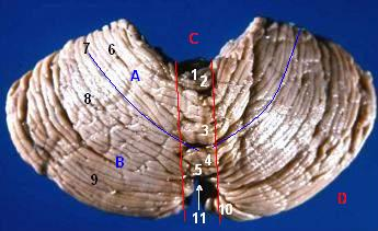 Human cerebellum - posterior view Lingula cerebelli Lobulus centralis Culmen Declive Folium vermis Lobulus quadrangularis anterior, Pars anterior Fissura prima Lobulus simplex, Lobulus quadrangularis posterior Lobulus semilunaris superior Lobulus semilunaris inferior Tuber vermis A: Lobus cerebelli anterior, B: Lobus cerebelli posterior, C: Vermis cerebelli, D: Hemispherium cerebelli The cerebellum coordinates movement and retains motor skill (procedural) memory. The cerebellum is divided mediolaterally into a narrow midline portion called the Vermis which is connected laterally to two massive (right and left) Hemispheres. The surface (cortex) is thrown into a series of transverse folds called Folia. (font: arial black, size: 10)